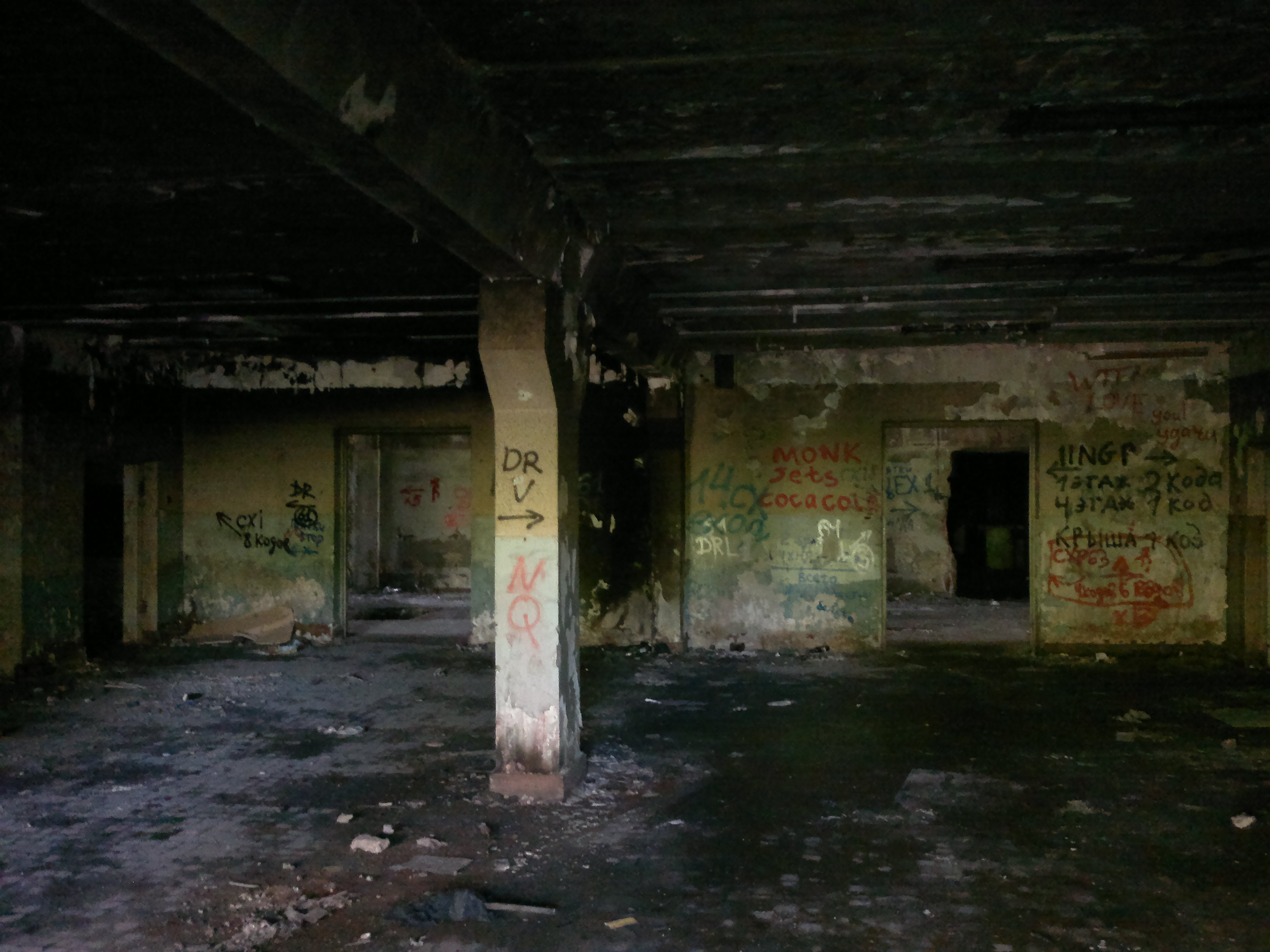 Left side of the main body of the Donai-3M radar (DOG HOUSE), Russia